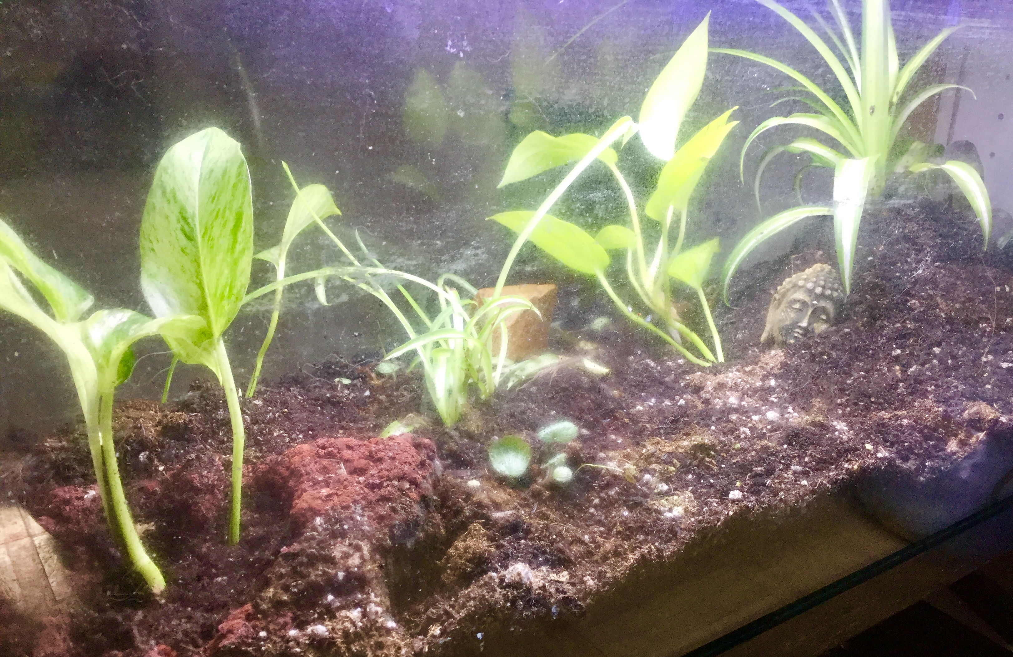 various plants in a closed terrarium